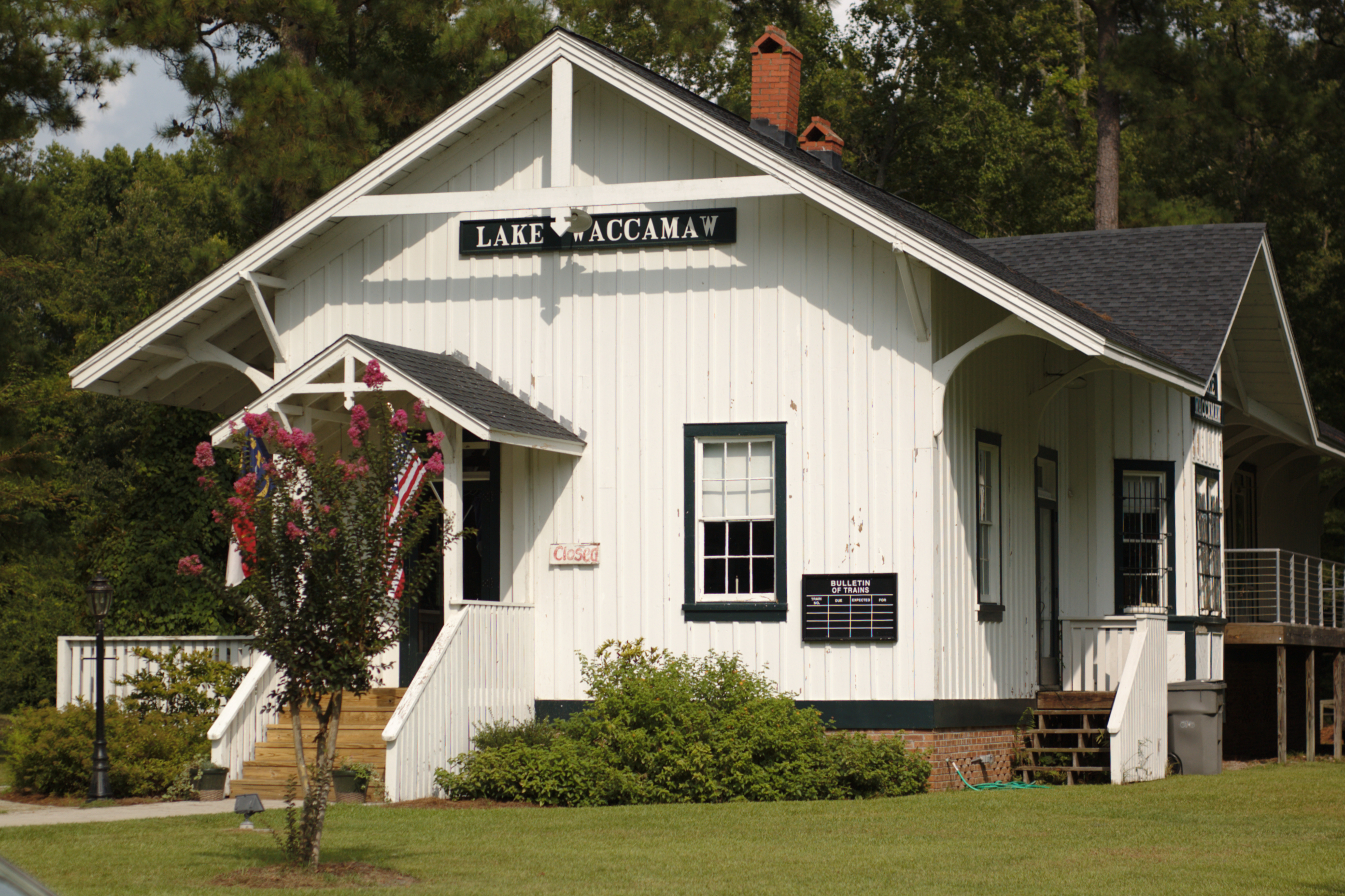 Lake Waccamaw Depot, Flemington Ave. Lake Waccamaw